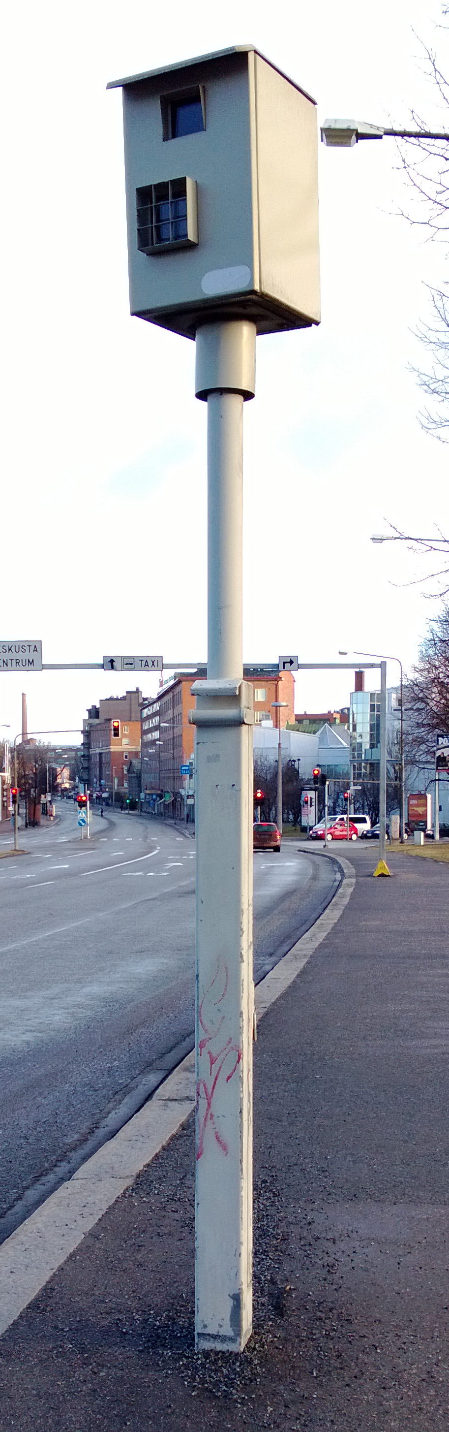 Speed control camera at Hatanpään valtatie at the Tampere Orthodox Church.